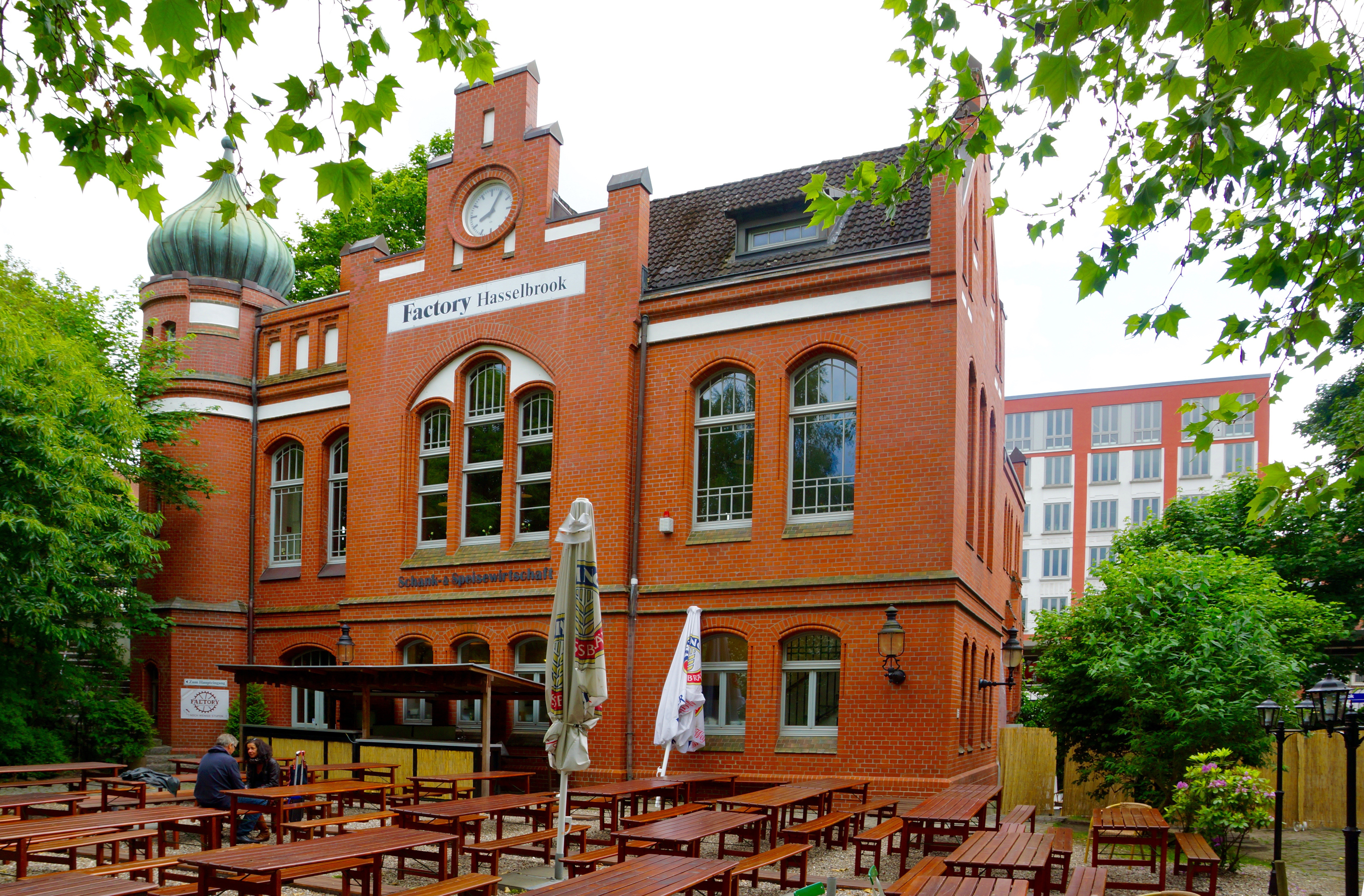 Hamburg (Eilbek), Germany: Former railway station Hasselbrook, northern facade